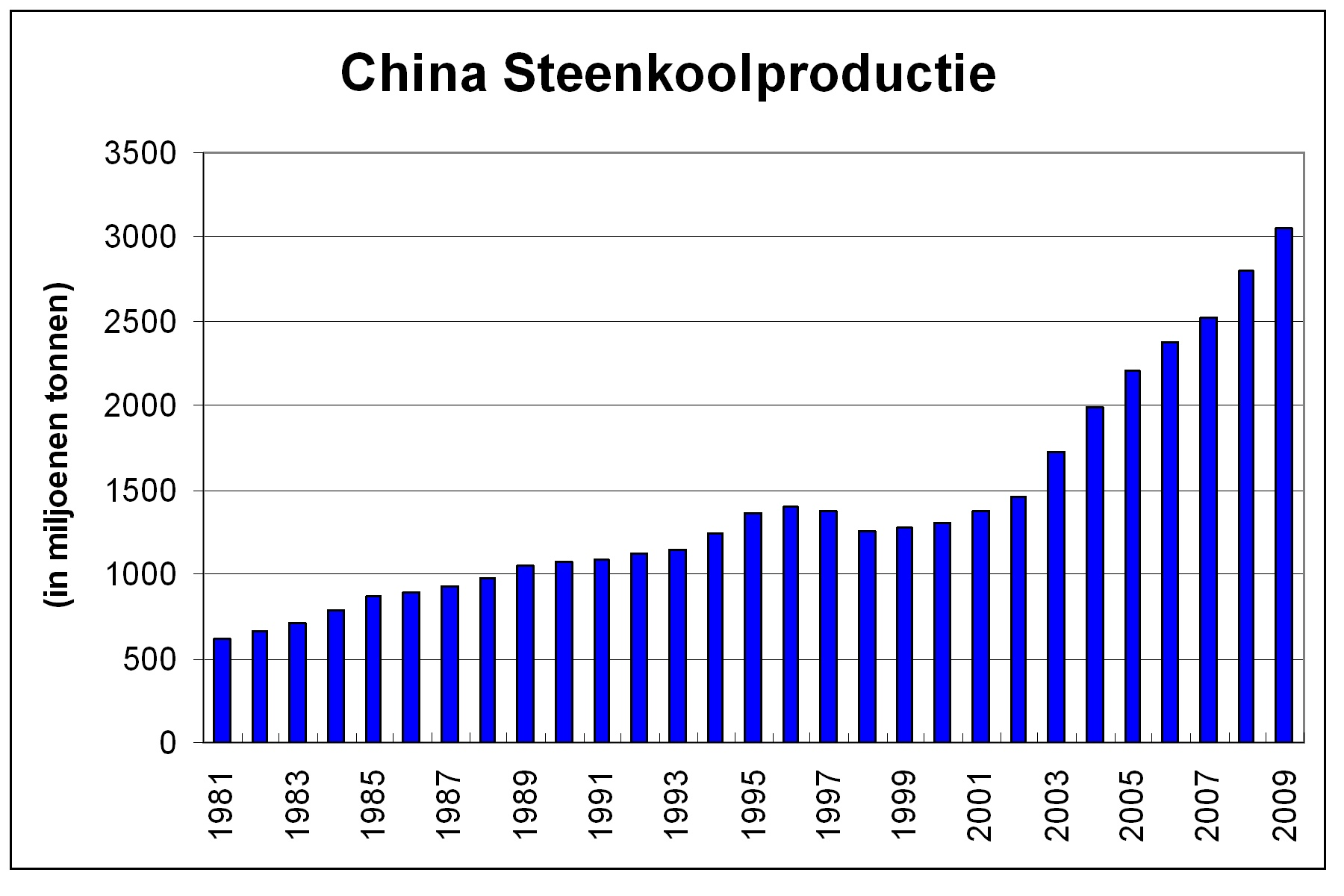 Coal production in China in million tons per annum. Source: BP Statistical Review of World Energy 2010